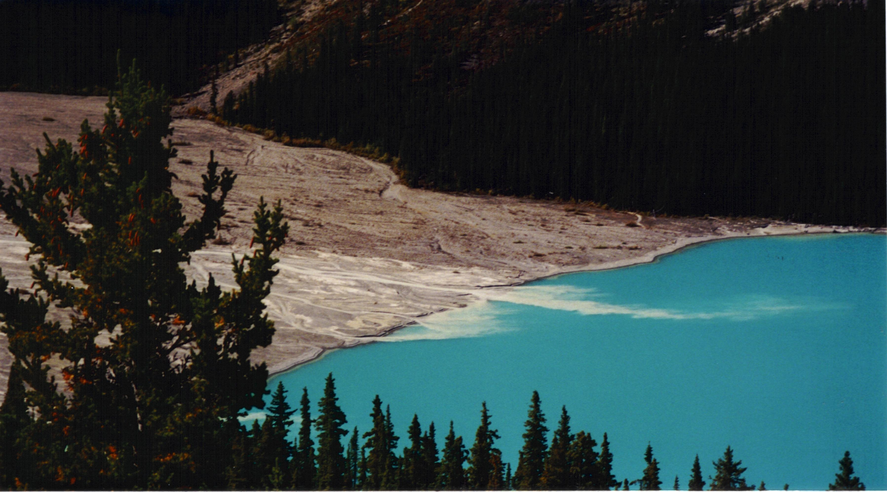 Photo of rock flour (glacial flour) flowing into Peyto Lake, Banff National Park, Alberta, Canada